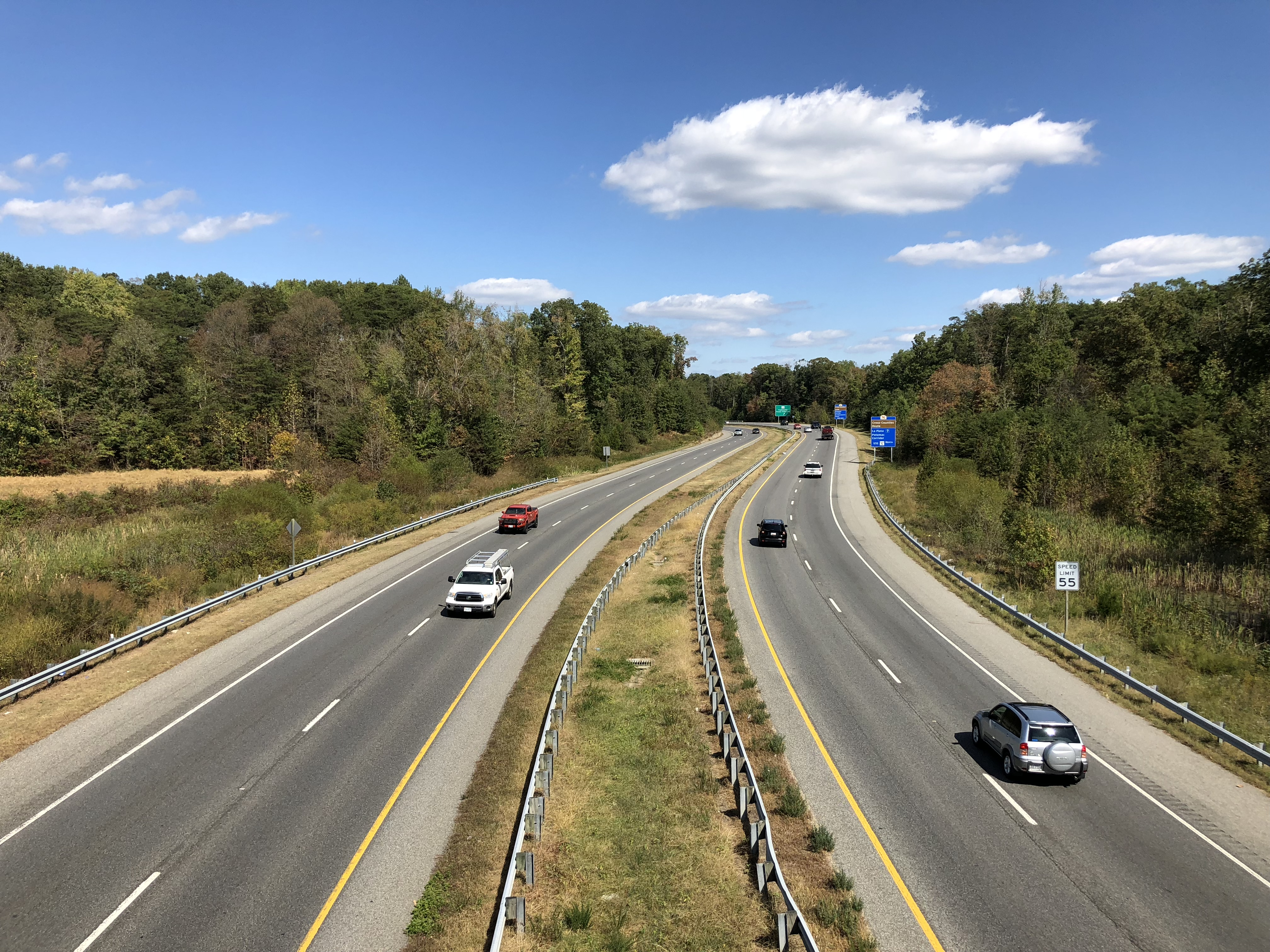 View north along Maryland State Route 5 (Leonardtown Road) from the overpass for Homeland Drive in Hughesville, Charles County, Maryland